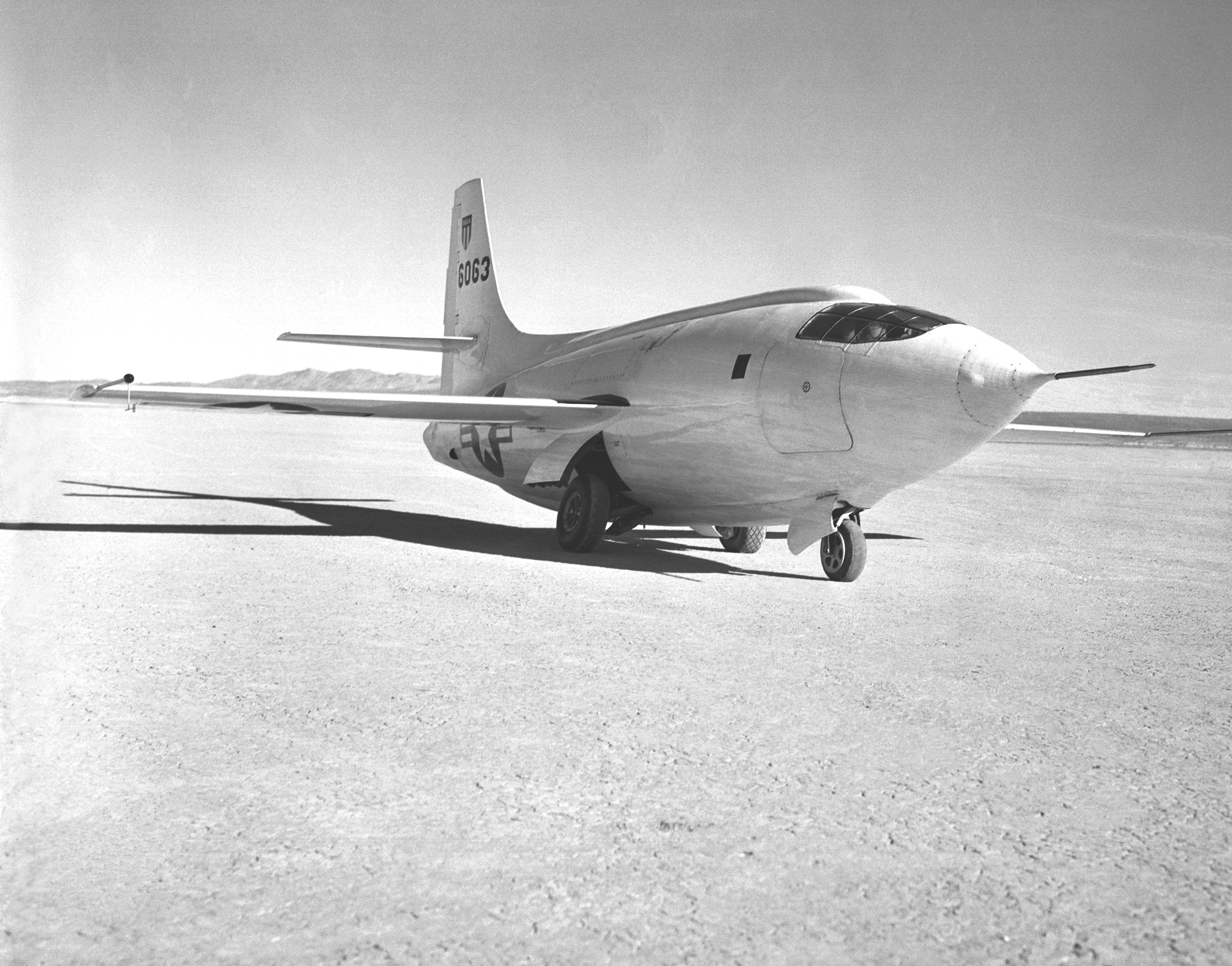 The Bell Aircraft Corporation X-1-2 sits on the Rogers Dry Lakebed at Muroc Air Force Base, California in 1949. Some airplane characteristics are: Fuselage length, feet 31.0 Wing span, feet 28.0 Horizontal tail width, feet 11.4 Vertical tail height, feet 8.02 (above center line of plane).